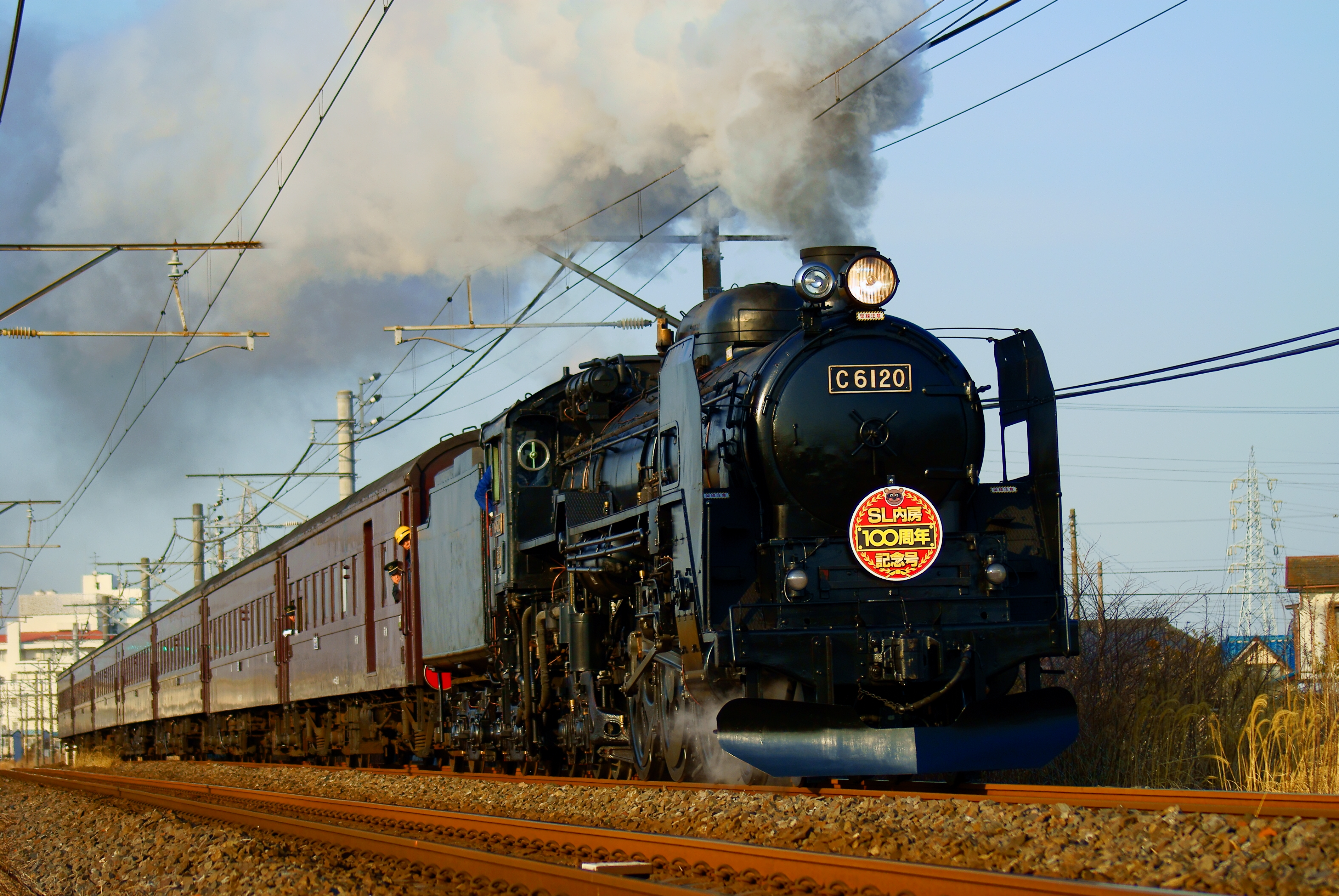 Japanese National Railways Steam Locomotive Class C61 (C61 20) runnning as memorial train of the 100th anniversary of Uchibo line.